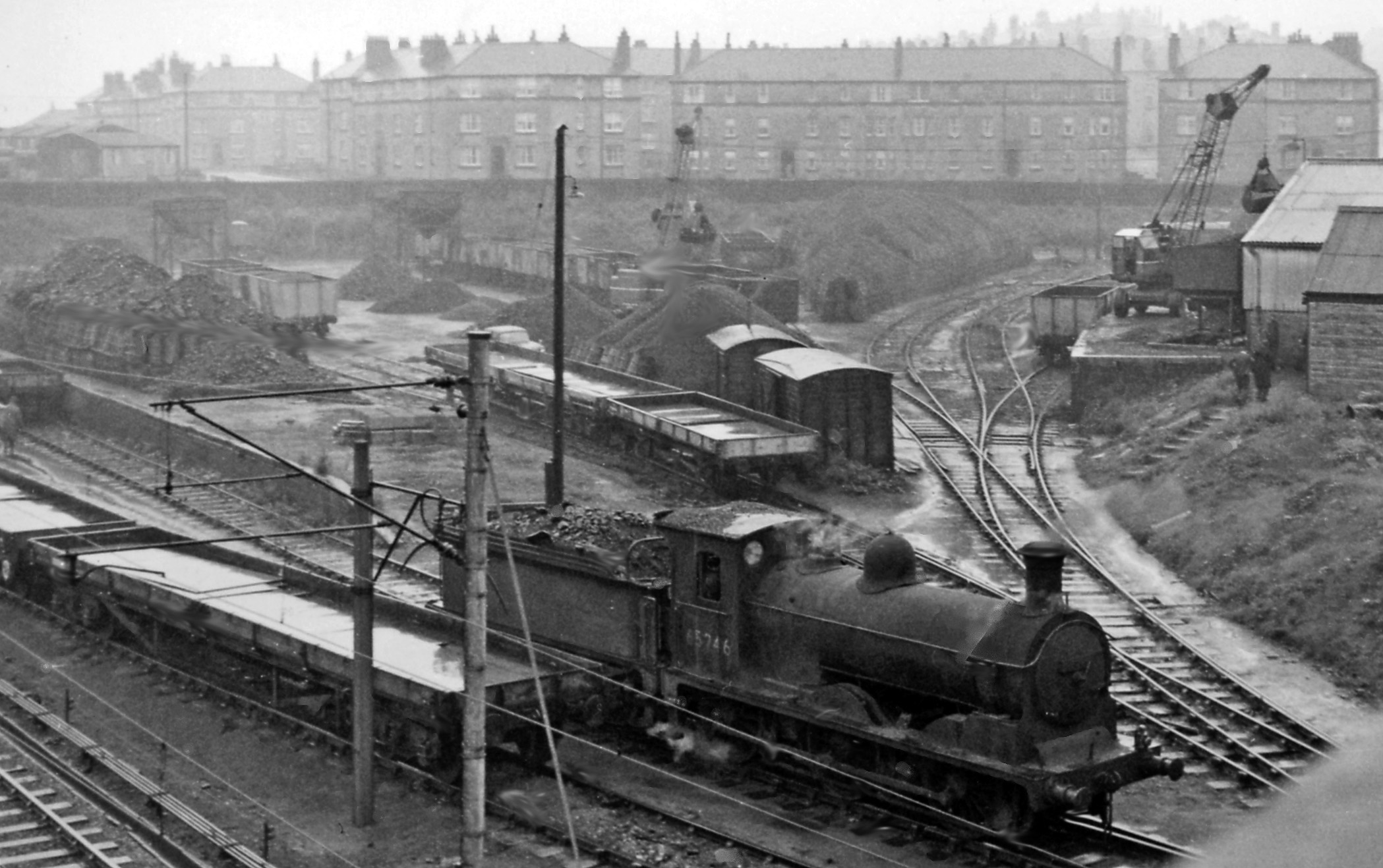 Garngad Sidings and site of station, with ex-NB 0-6-0 shunting. View northward from Royston Road, towards Springburn, Cowlairs, Maryhill etc.; ex-North British (former City of Glasgow Union) Bellgrove - Cowlairs Junction line. Garngad Station was closed in March 1910, but the line was electrified in 1960 and is still active. In the centre the line to Sighhill Goods crosses on a viaduct. The locomotive is one of the long-lasting NB Holmes J36 0-6-0's, No. 65246. Glasgow's East End, barely a blade of grass in sight.